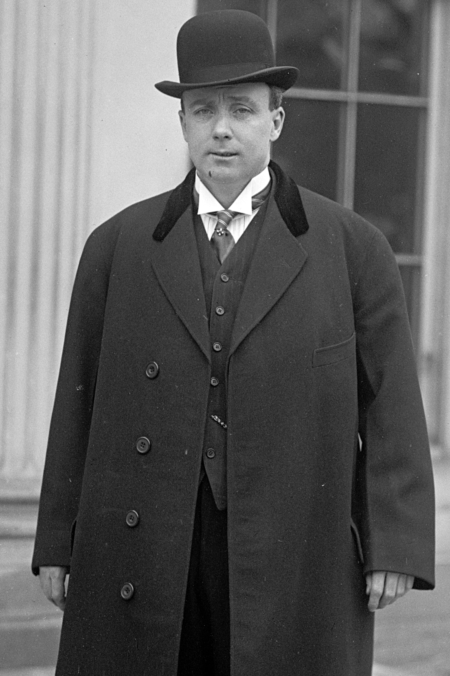 James A. Hamill, US Representative from New Jersey